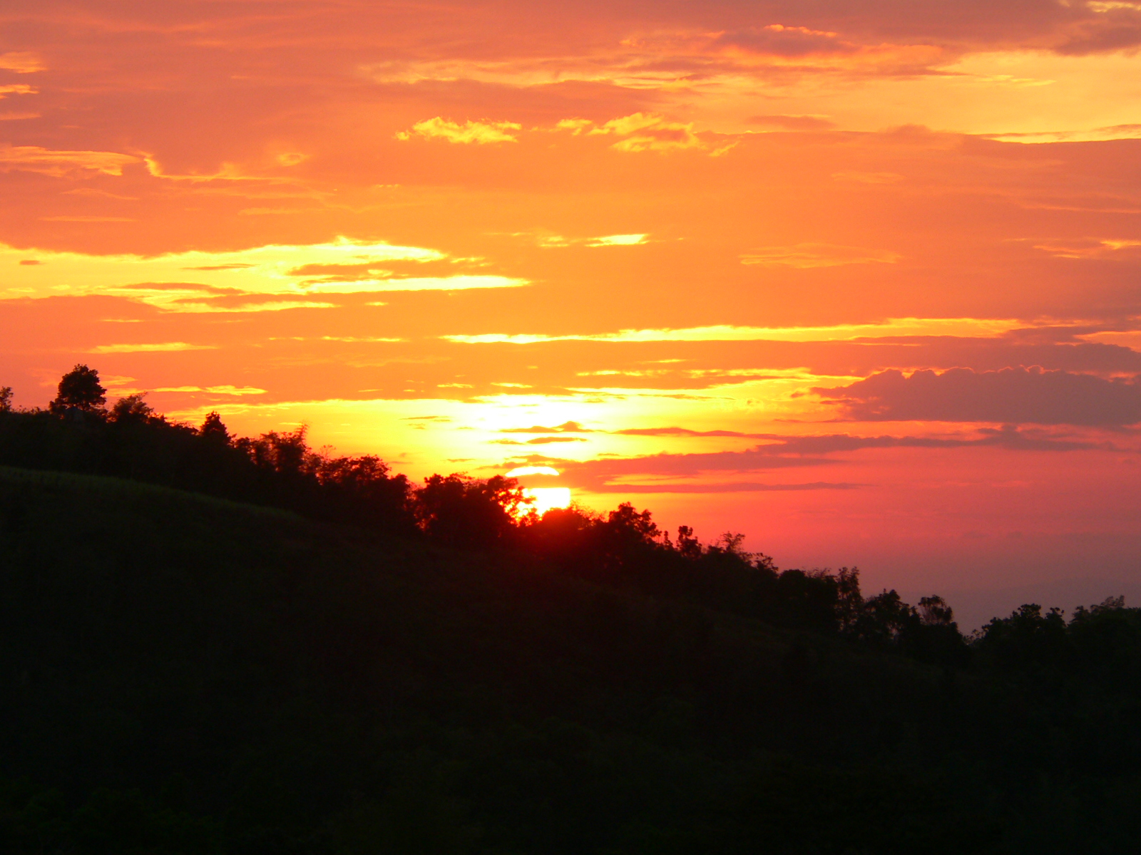 Sunset seen from Kanlaon Mountain Tagalog: Paglubog ng araw mula sa Bundok Kanlaon